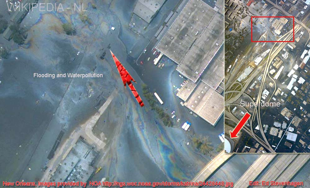 Water pollution near the Superdome at New Orleans after the flooding caused by the Hurricane Katrina. Source NOAA: National Oceanic and Atmospheric Administration. Digital composition: Ed Stevenhagen.